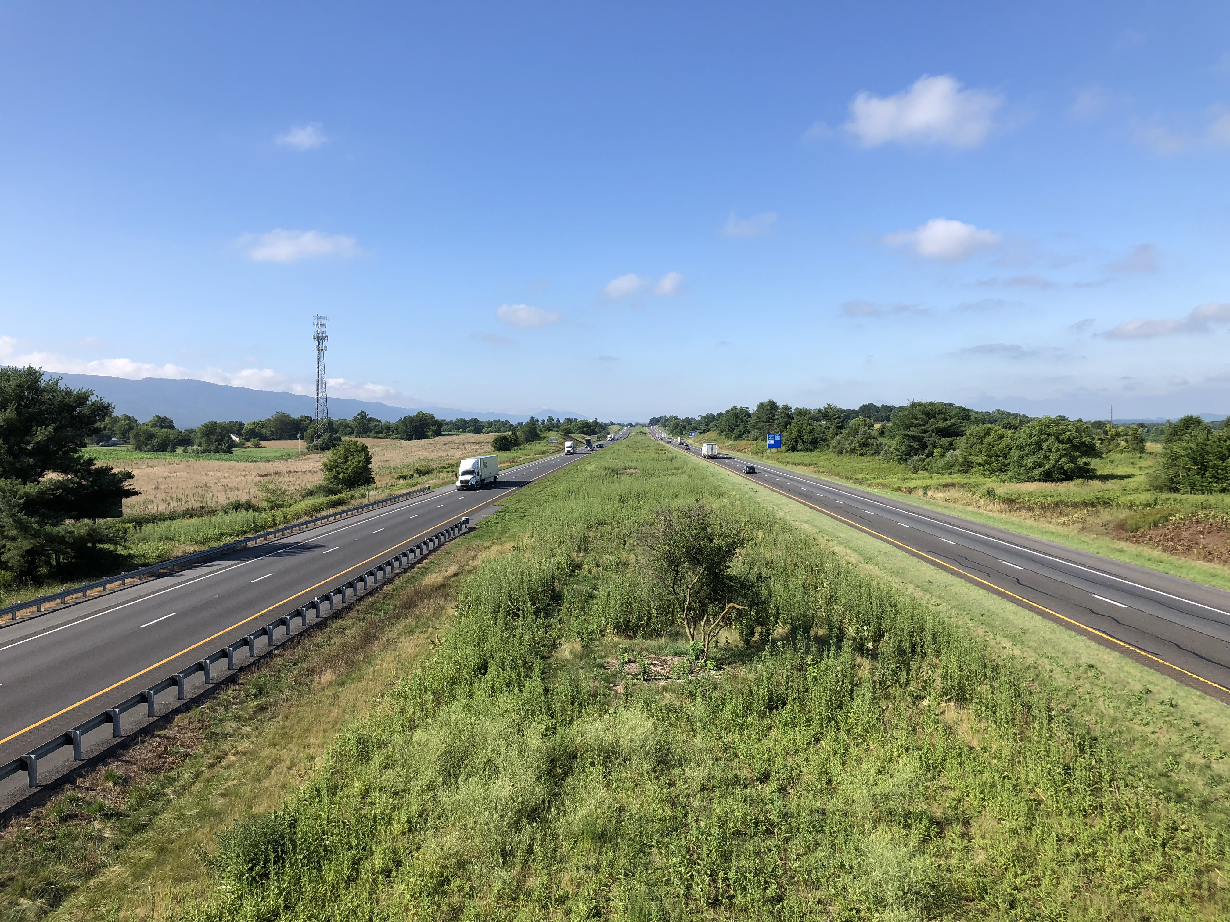 View south along Interstate 81 from the overpass for Virginia State Route 767 (Quicksburg Road) in Quicksburg, Shenandoah County, Virginia